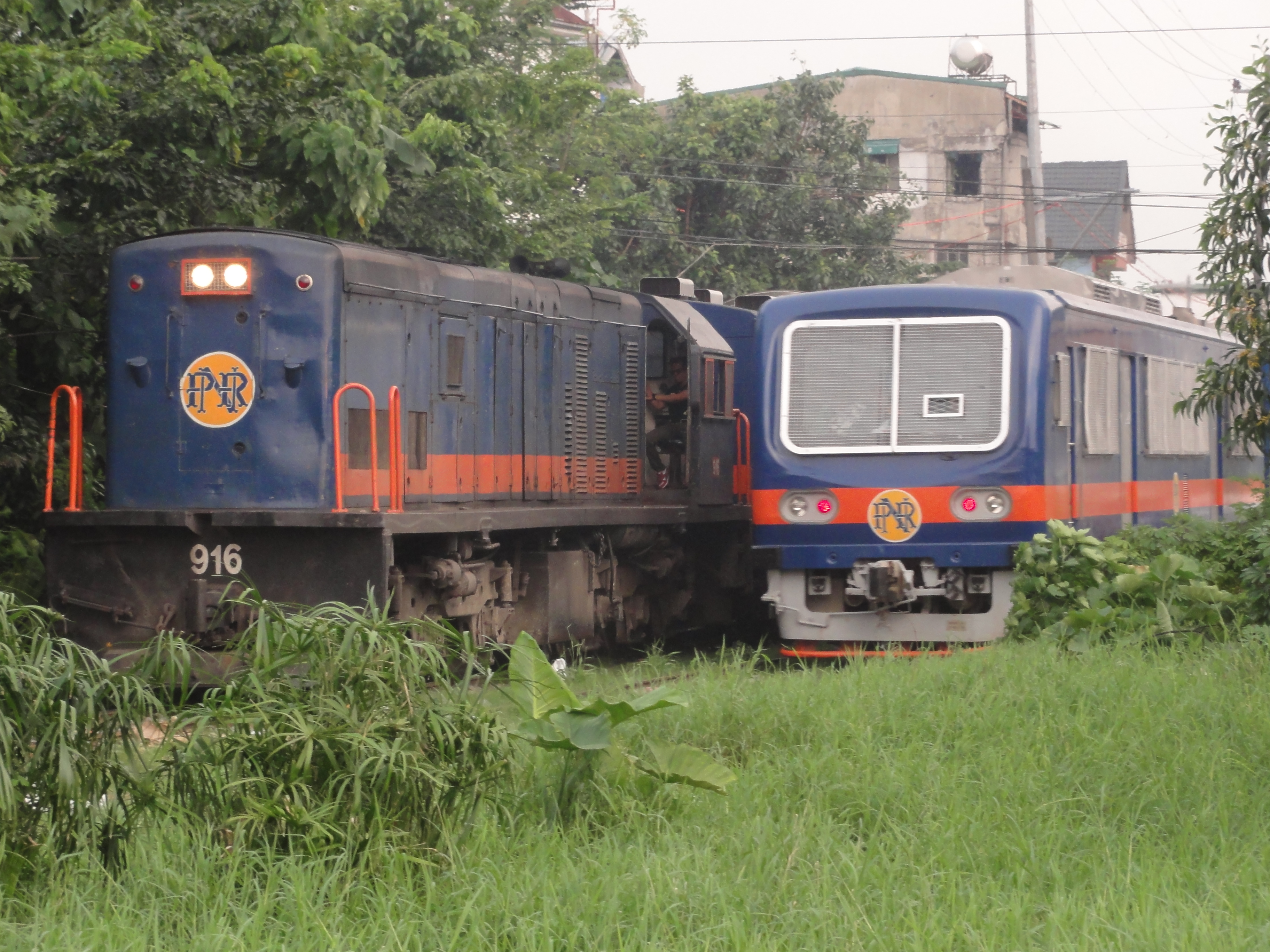 Two Philippine National Railways (PNR) trains arriving at Santa Mesa Station, Manila. Seen are a modified JR EMU carried by an old GE locomotive at the left and a Hyundai DMU at the right. Both trains were repainted during the second quarter of 2015.